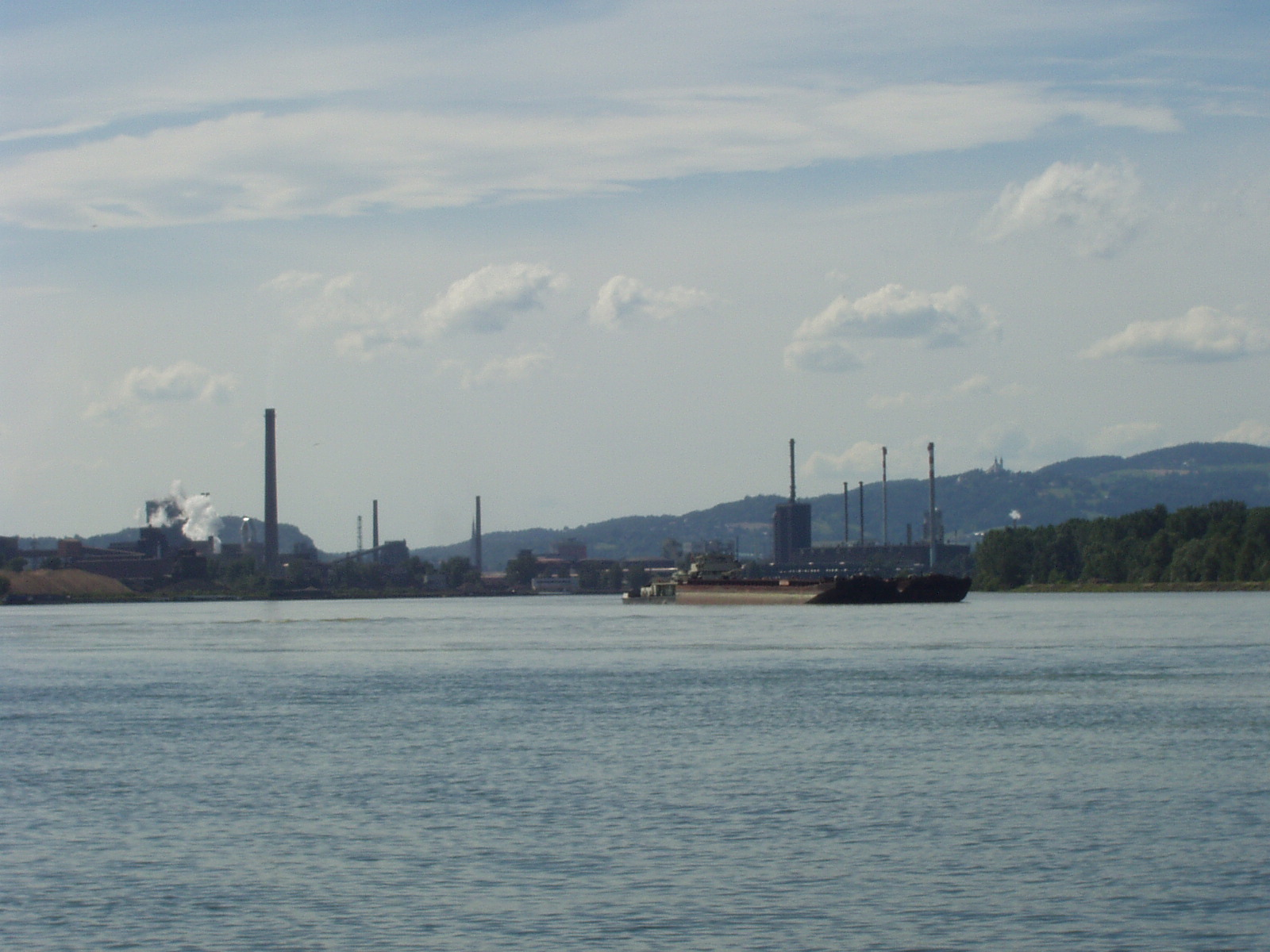 Austria, Linz, Danube